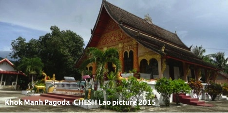 This is a pagoda of Khokmanh village.